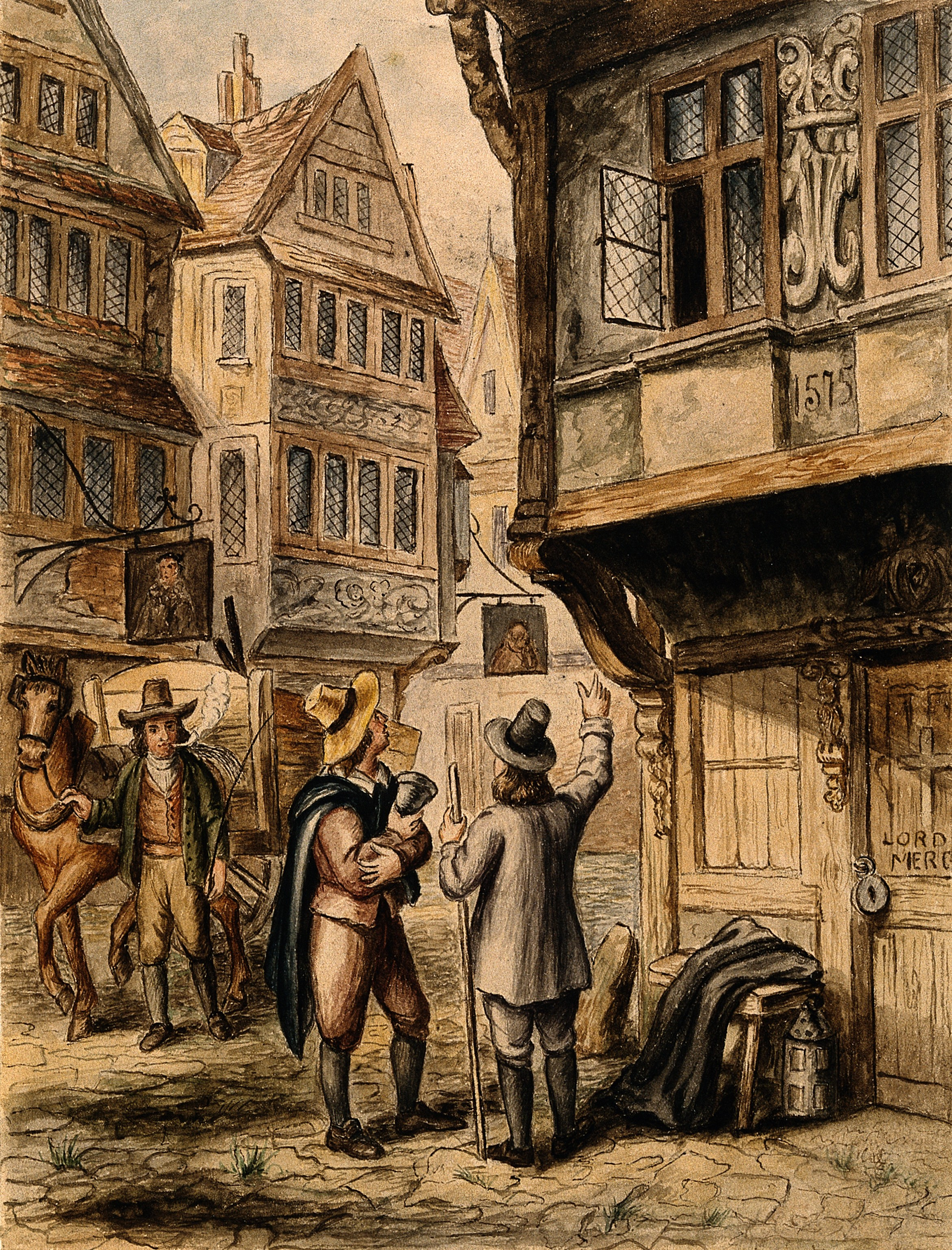 A cart for transporting the dead in London during the Great Plague, 1665. Watercolour painting by or after G. Cruikshank. Iconographic Collections Keywords: public health: plague; plague, london, 1665; George Cruikshank